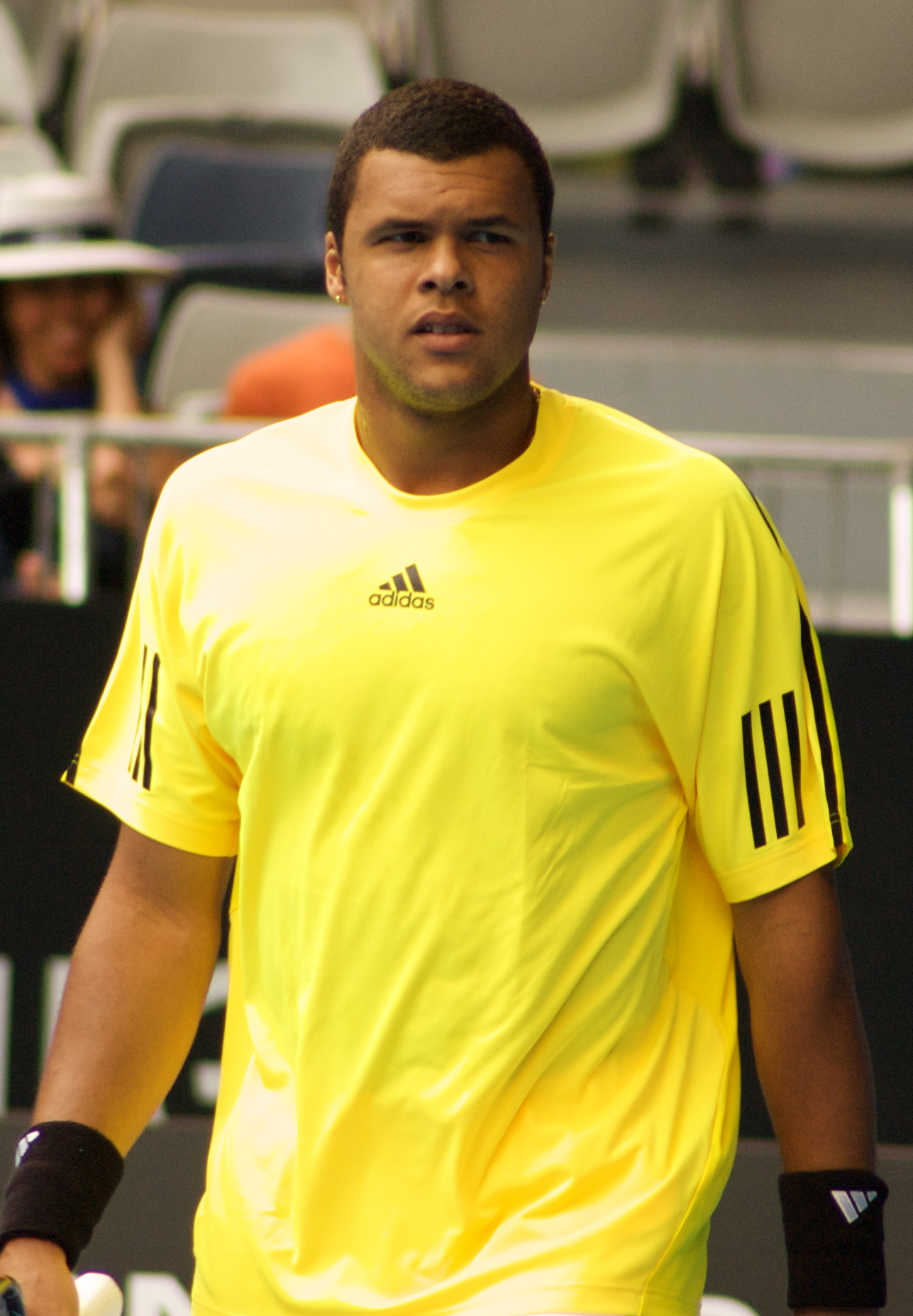 Jo-Wilfried Tsonga at 2009 Australian Open, Melbourne, Australia.